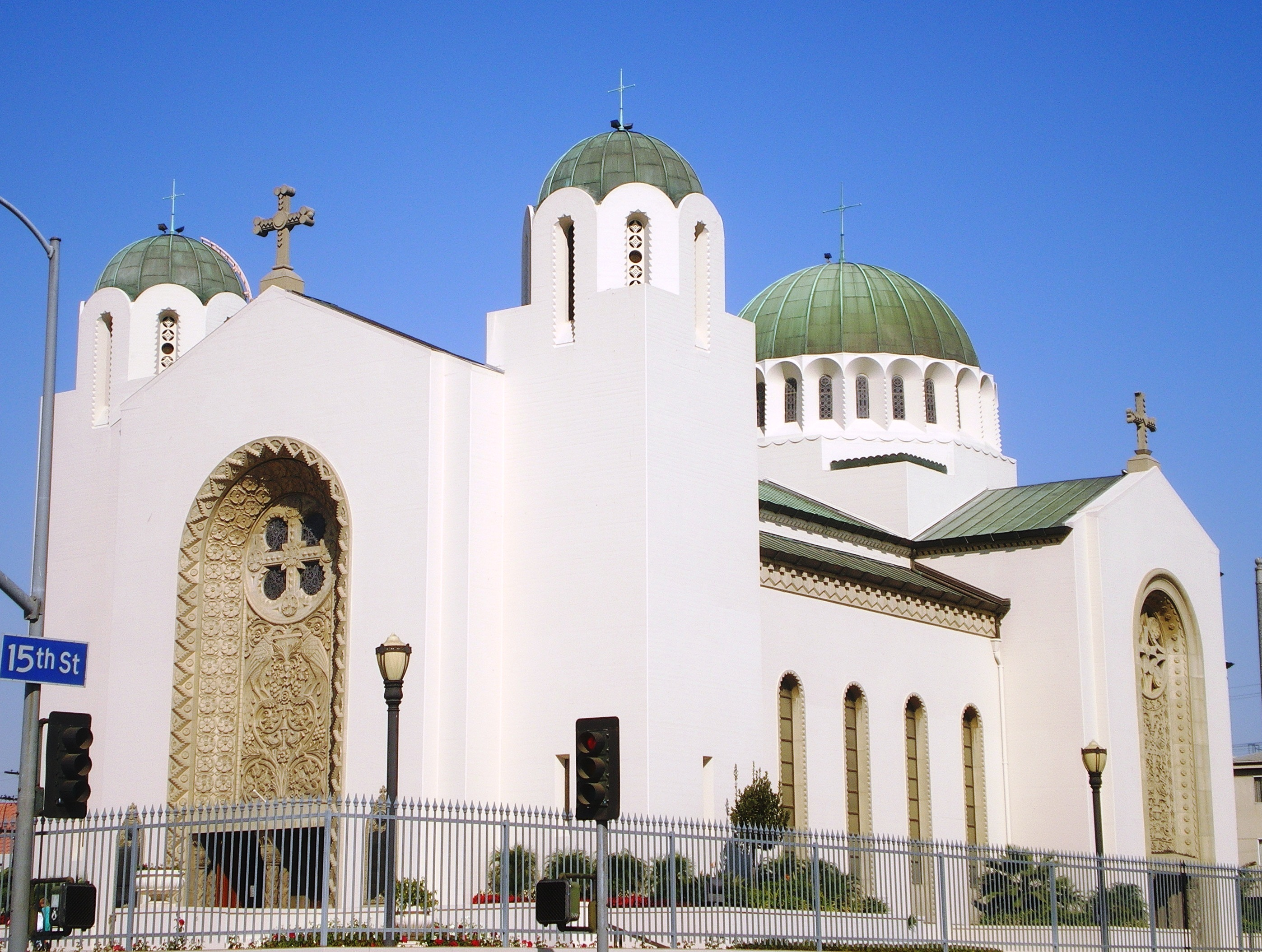 Saint Sophia Greex Orthodox Cathedral, 1324 S. Normandie Ave., Los Angeles, CA (HCM #120)